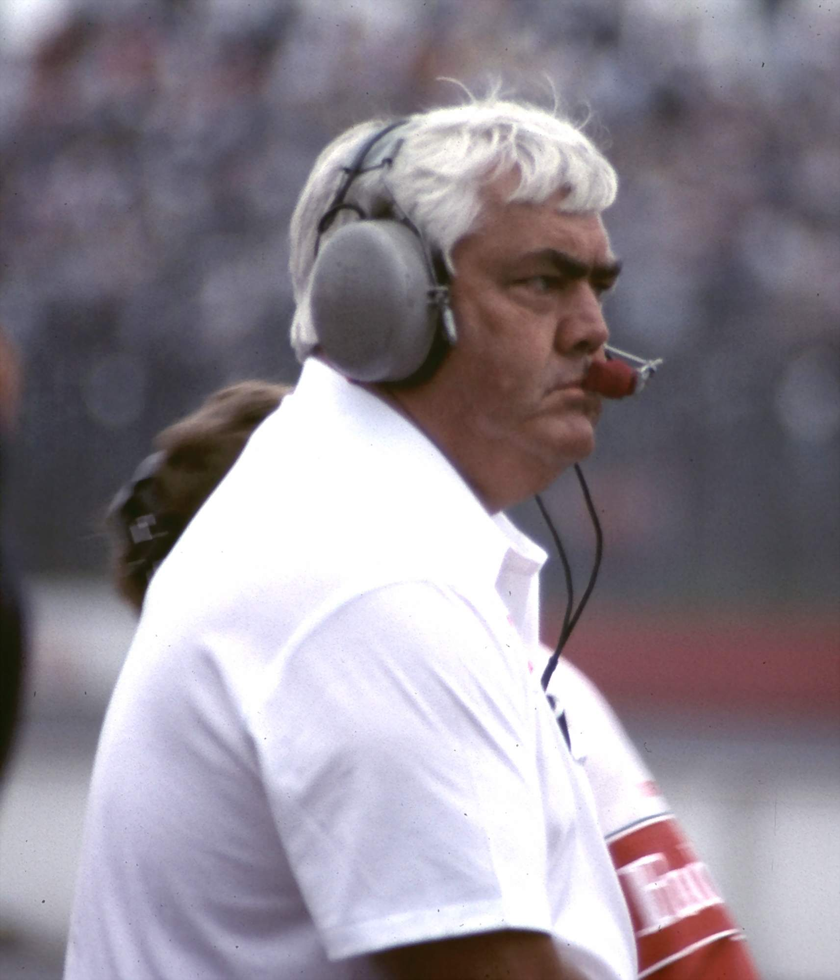 Junior Johnson